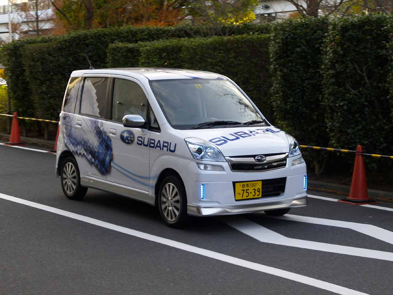 Subaru Plug-in Stella Concept, electric vehicle based Stella. Shown at Eco Products 2008, in Tokyo Big Sight.